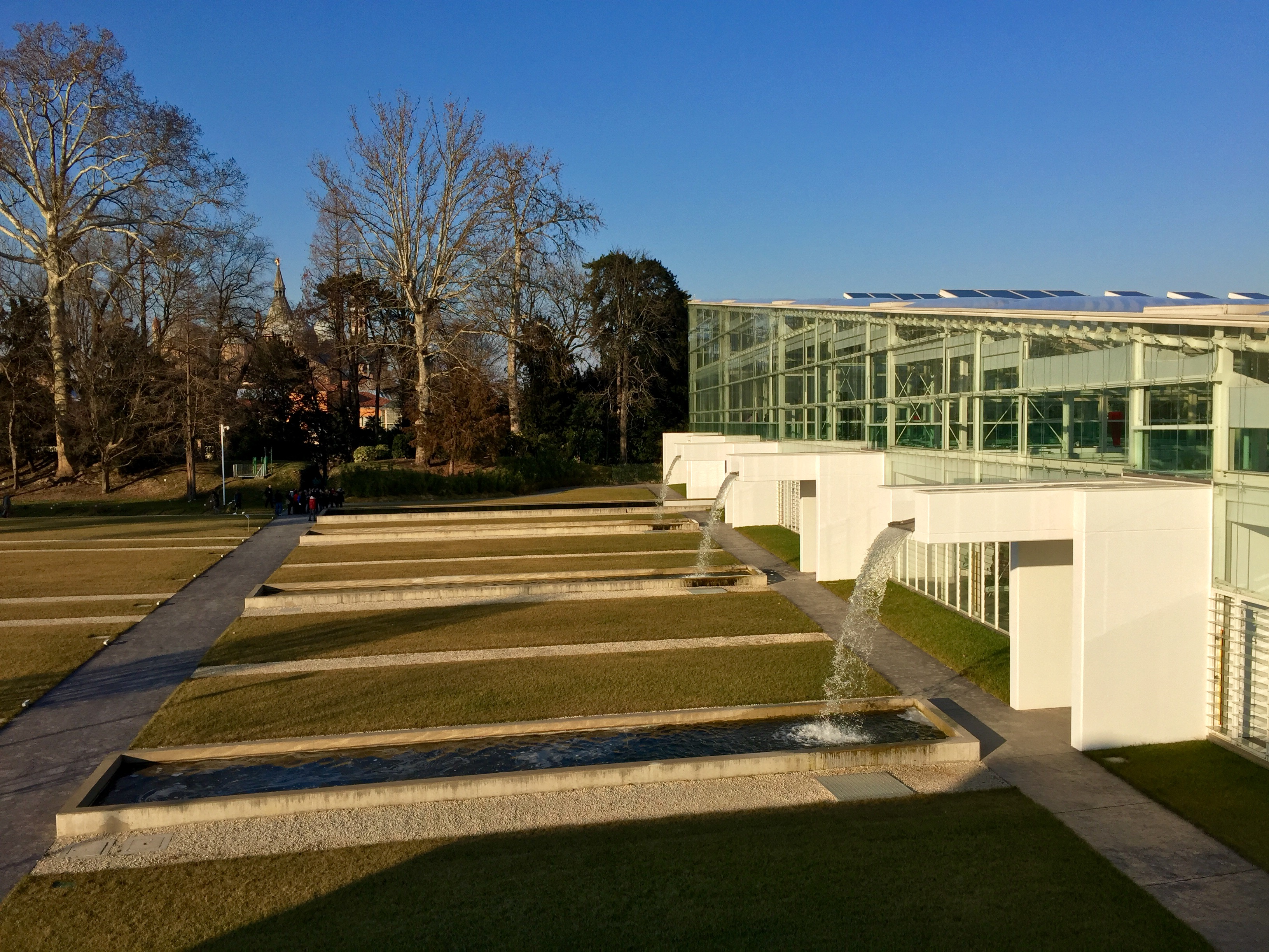 Giardino della Biodiversità, Vista Alto